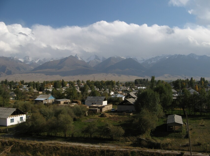 At-Bašy, view south from the cementery; in the background the At-Bašy range.